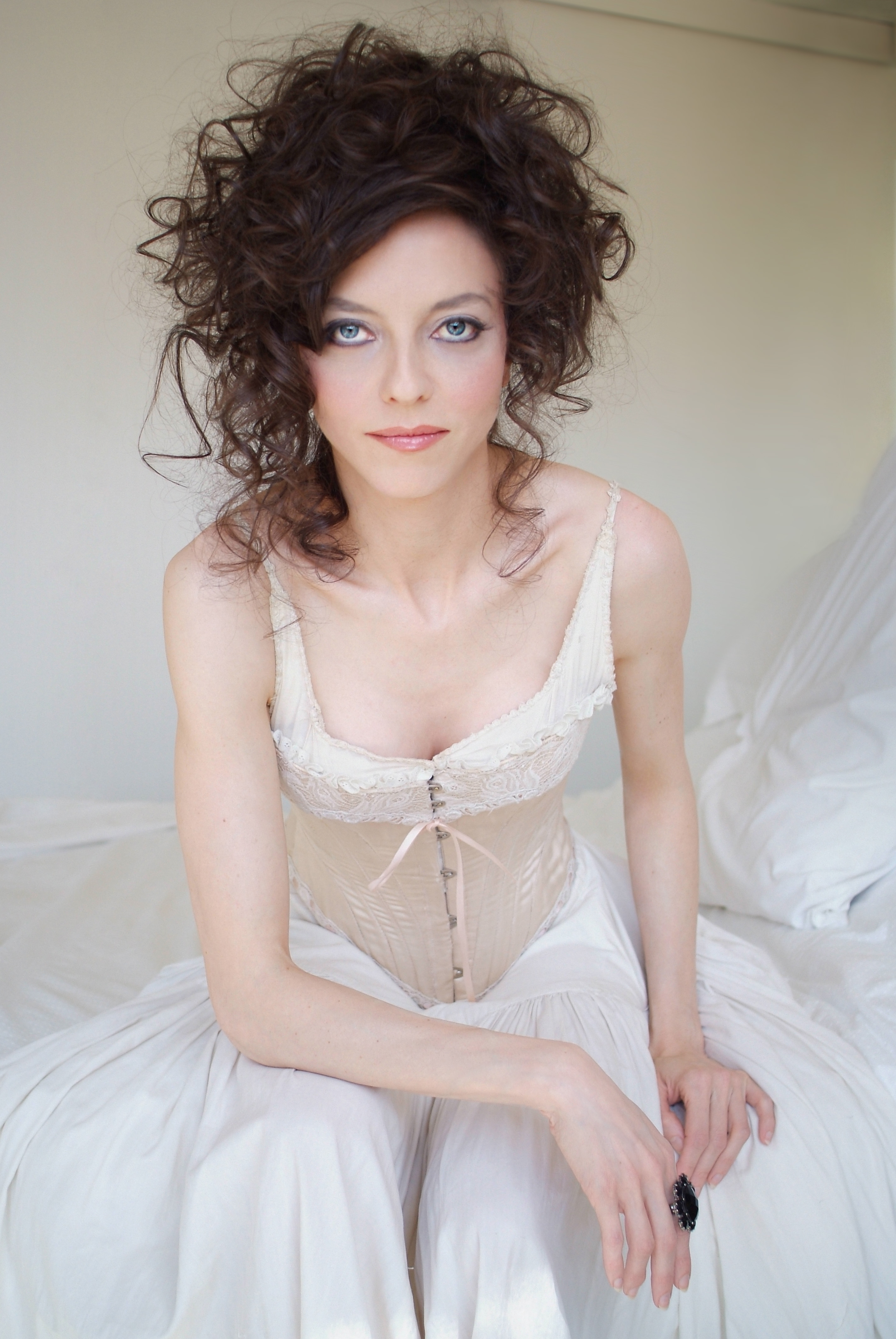 A photograph of Juliet Landau